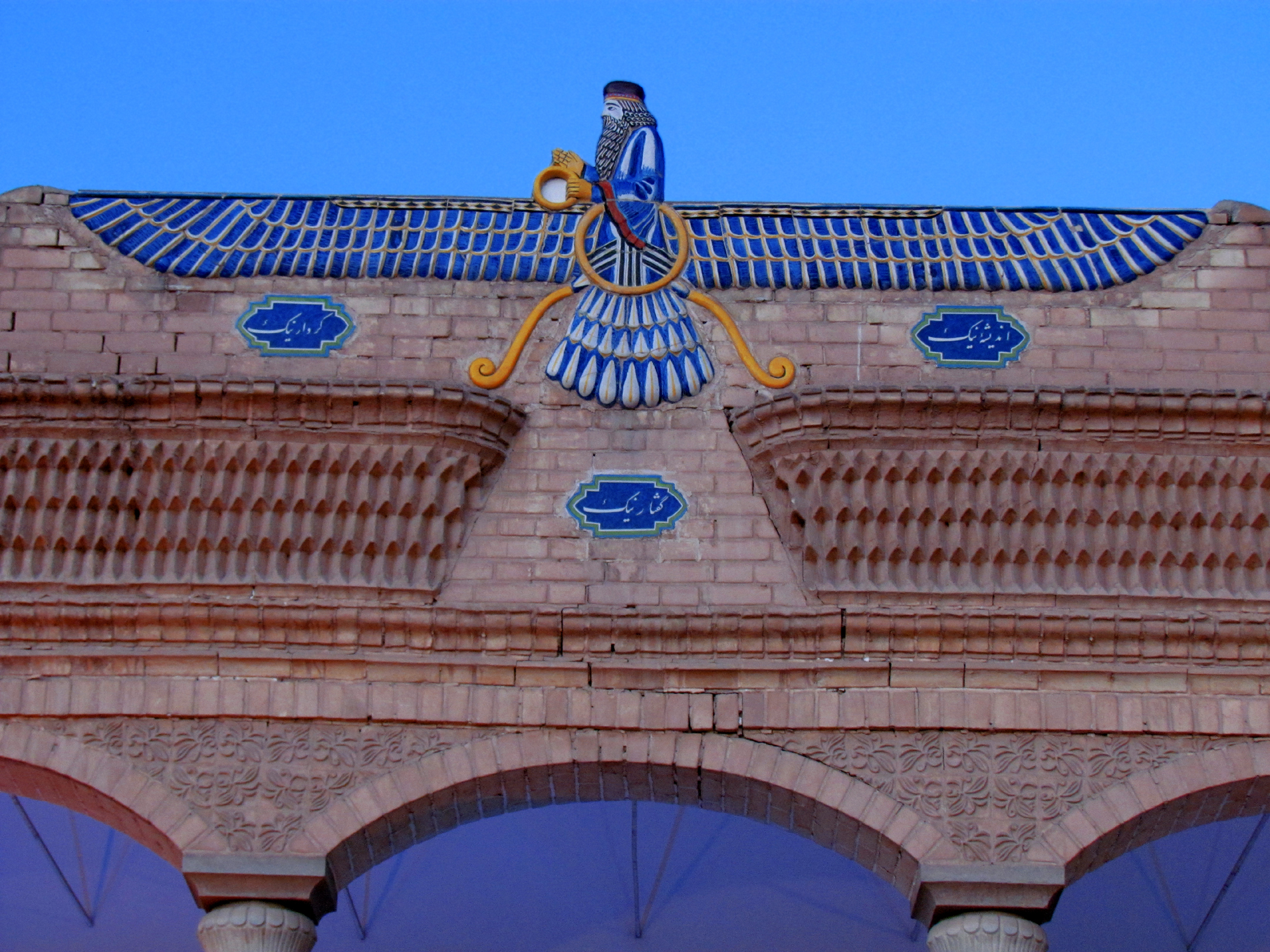 Iran - Yazd - Farvahar Symbol.